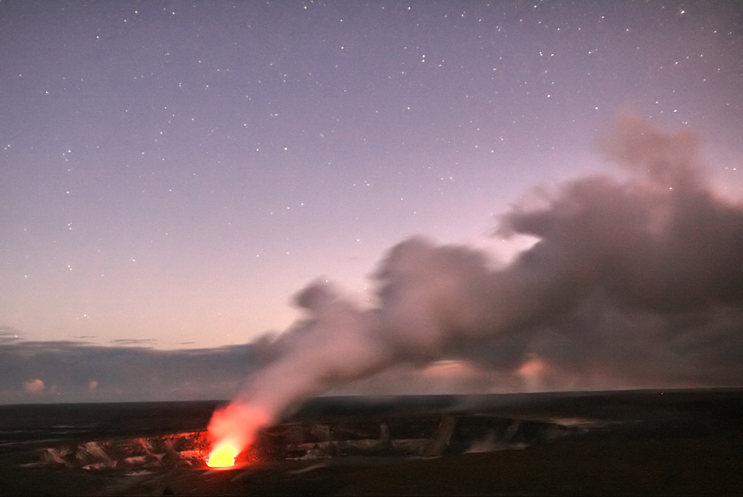 Sulfur dioxide emissions from the Halema`uma`u vent, Kīlauea glows at night